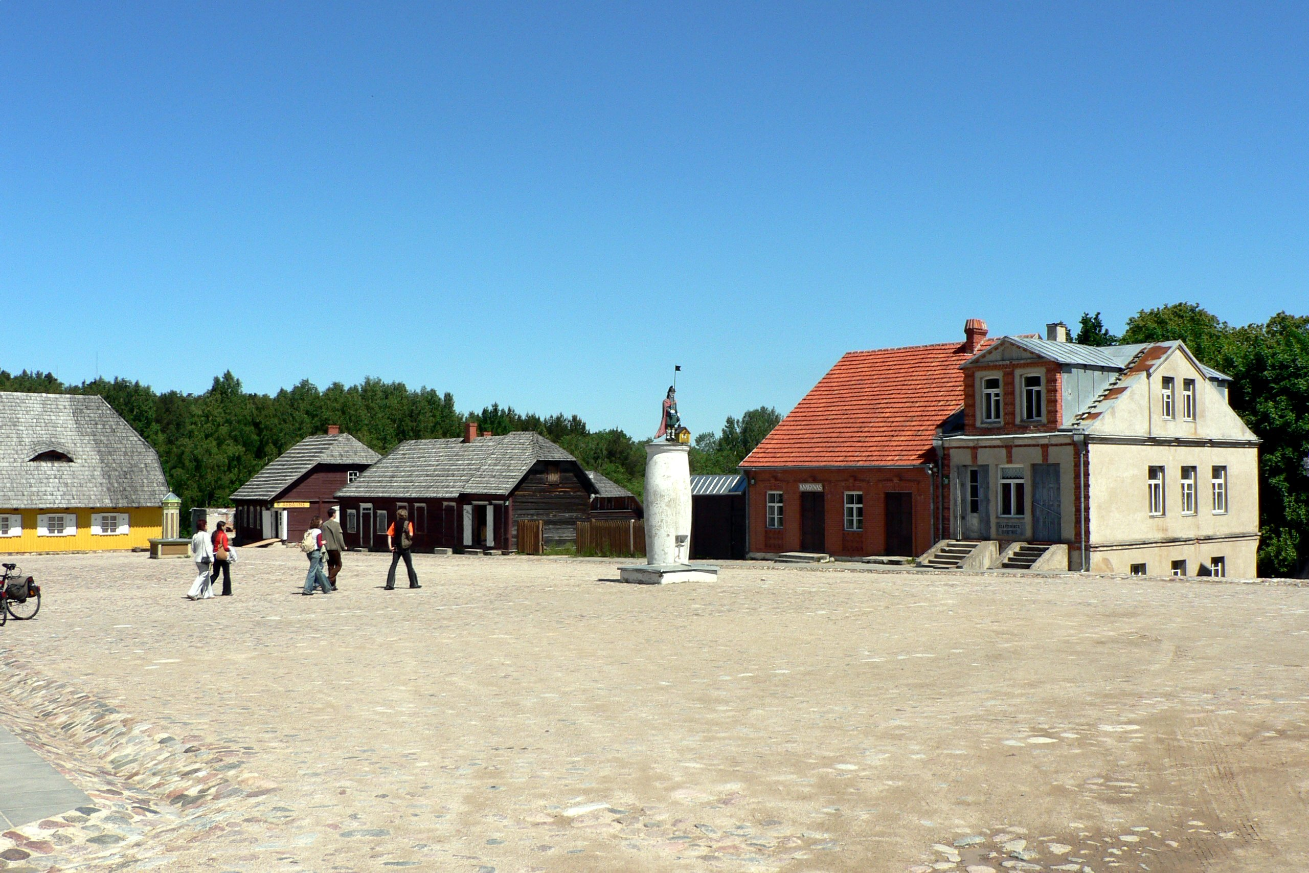 Rumšiškės, Lithuania. Ethnographic open air museum. Author: Wojsyl, 2005